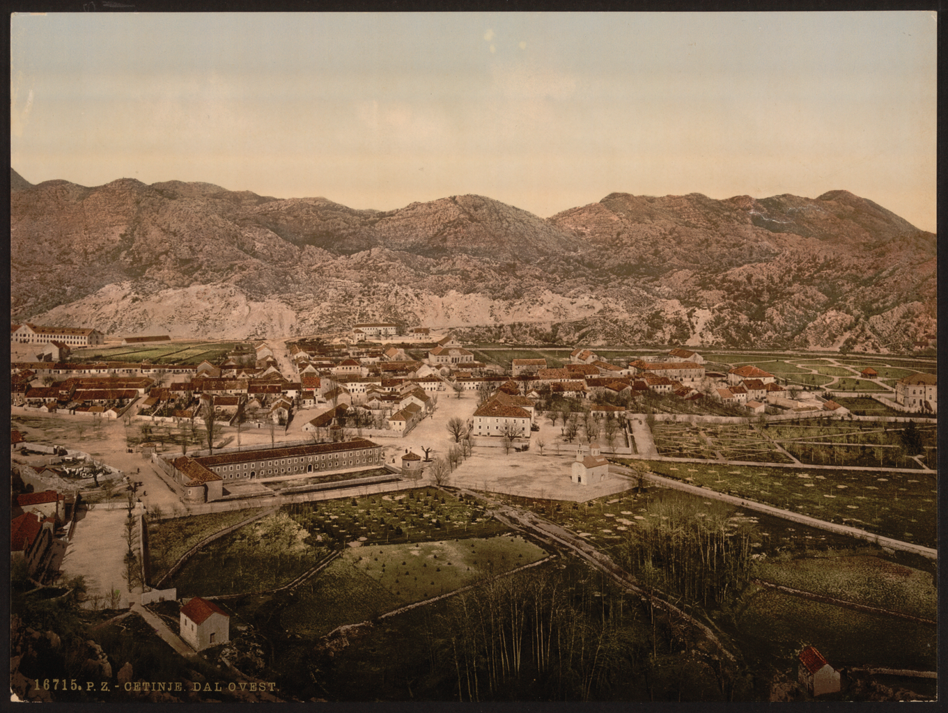 This late-19th century photochrome print is from “Views of Montenegro” in the catalog of the Detroit Publishing Company. It depicts the town of Cetinje, the capital of Montenegro, an independent principality that separated from the Ottoman Empire in 1878. According to Baedeker’s Austria, Including Hungary, Transylvania, Dalmatia, and Bosnia (1900), Cetinje had 3,000 inhabitants at the time. “In some respects the place resembles a little German country town, but it has several distinctive features of its own. It may be seen in an hour, but a whole day may be pleasantly spent in observing the natives and their peculiarities.” The Detroit Photographic Company was launched as a photographic publishing firm in the late 1890s by Detroit businessman and publisher William A. Livingstone, Jr. and photographer and photo-publisher Edwin H. Husher. They obtained the exclusive rights to use the Swiss "Photochrom" process for converting black-and-white photographs into color images and printing them by photolithography. This process permitted the mass production of color postcards, prints, and albums for sale to the American market. The firm became the Detroit Publishing Company in 1905. Cities and towns; Cityscapes